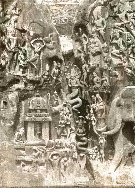 Relief of the "Descend of the Ganga" in Mahabalipuram (also Mamallapuram), India; the complete relief measures 9 x 27 m.